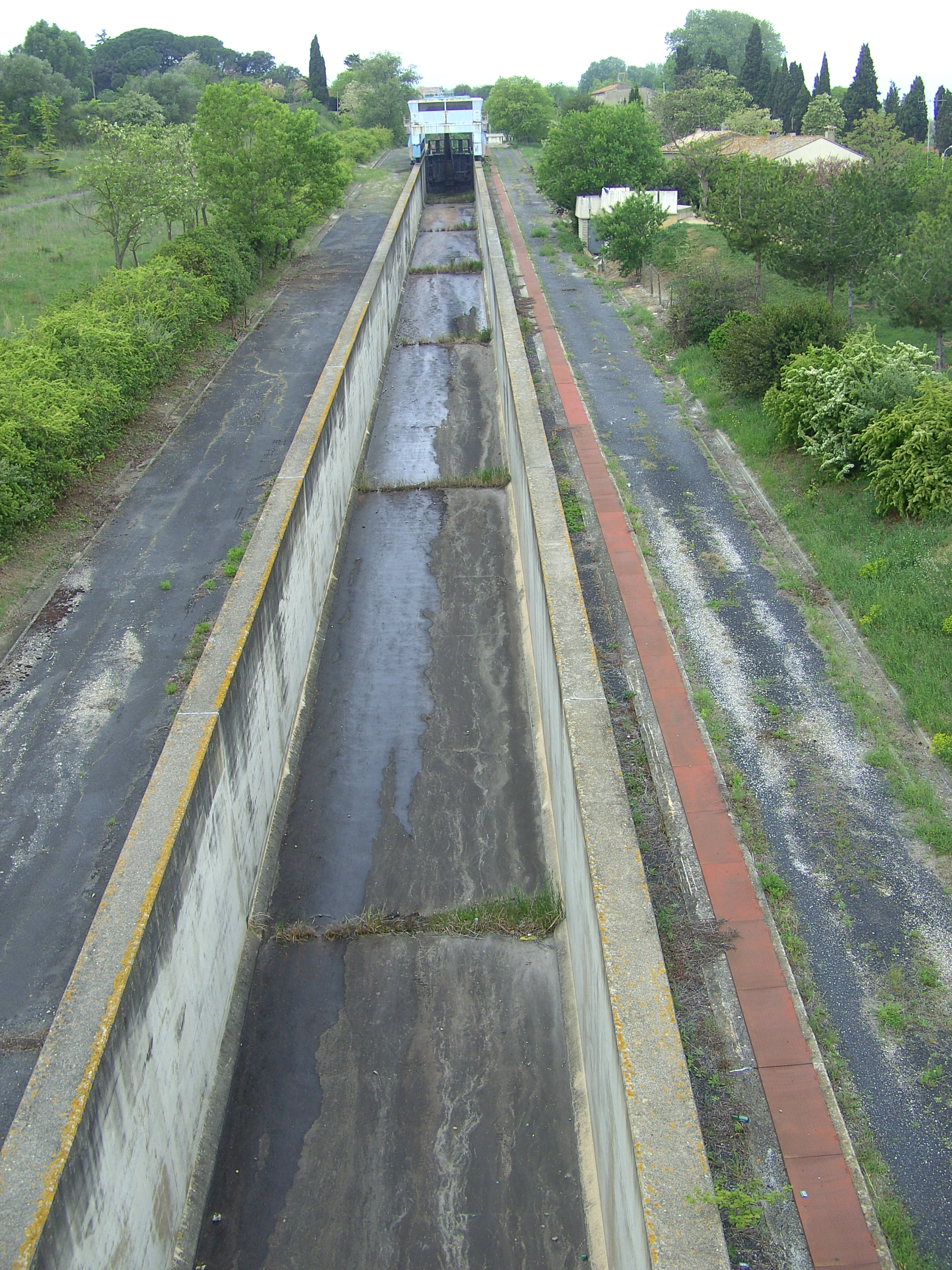 Pente d'eau haute